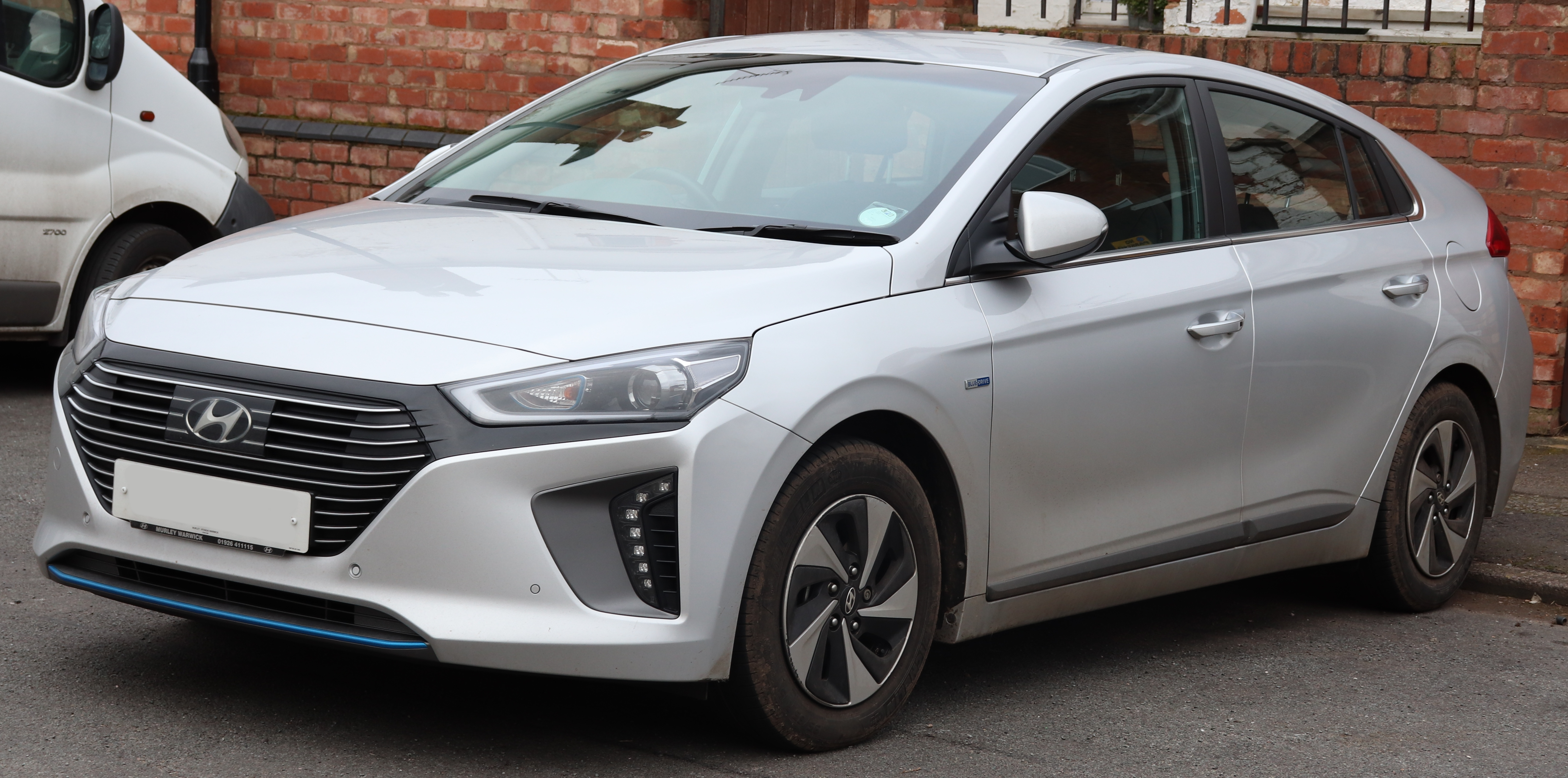 2016 Hyundai Ioniq Premium SE HEV S-A 1.6 Taken in Leamington Spa